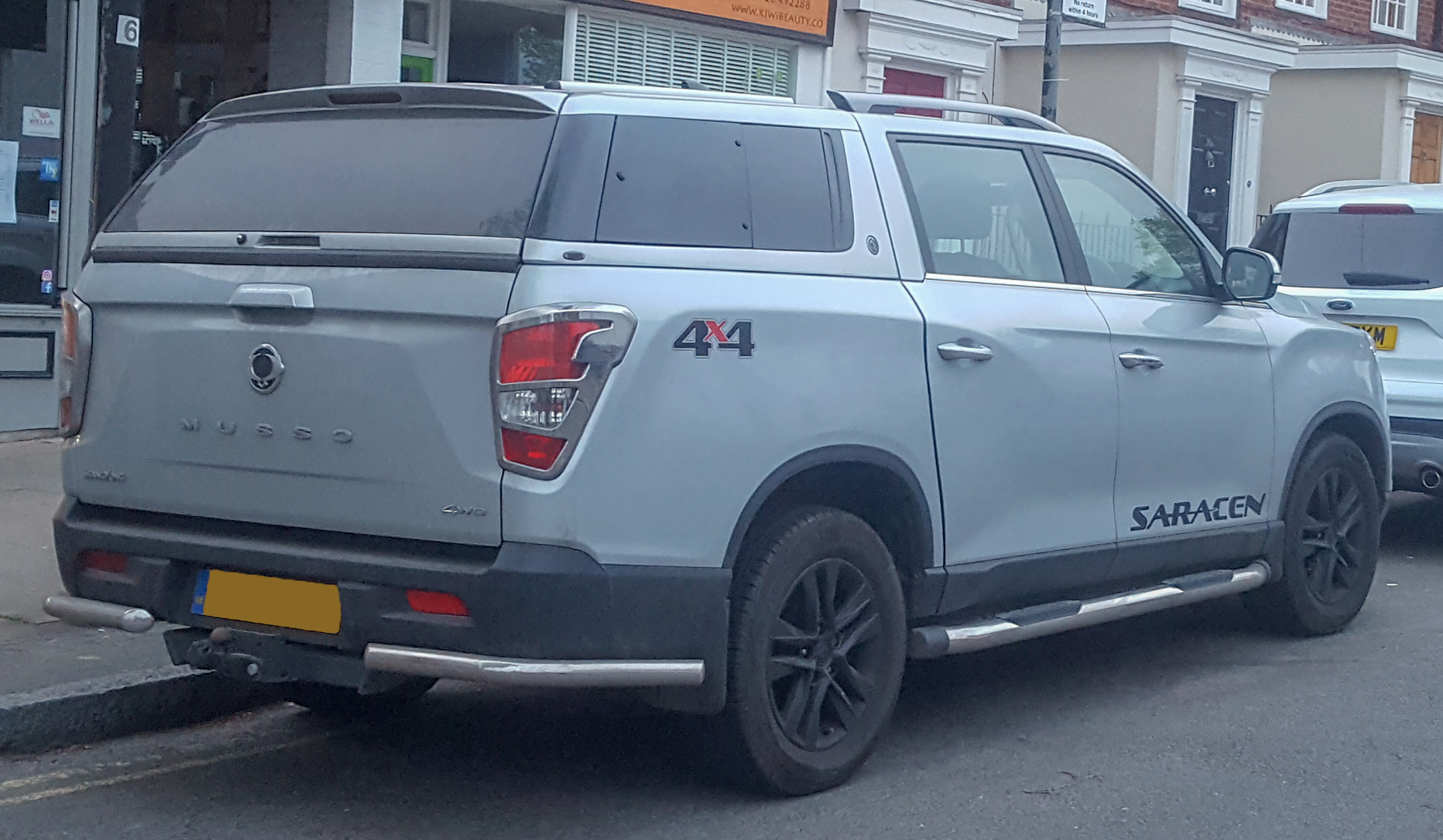 2018 Ssangyong Musso Saracen Automatic 2.2 Rear Taken in Warwick